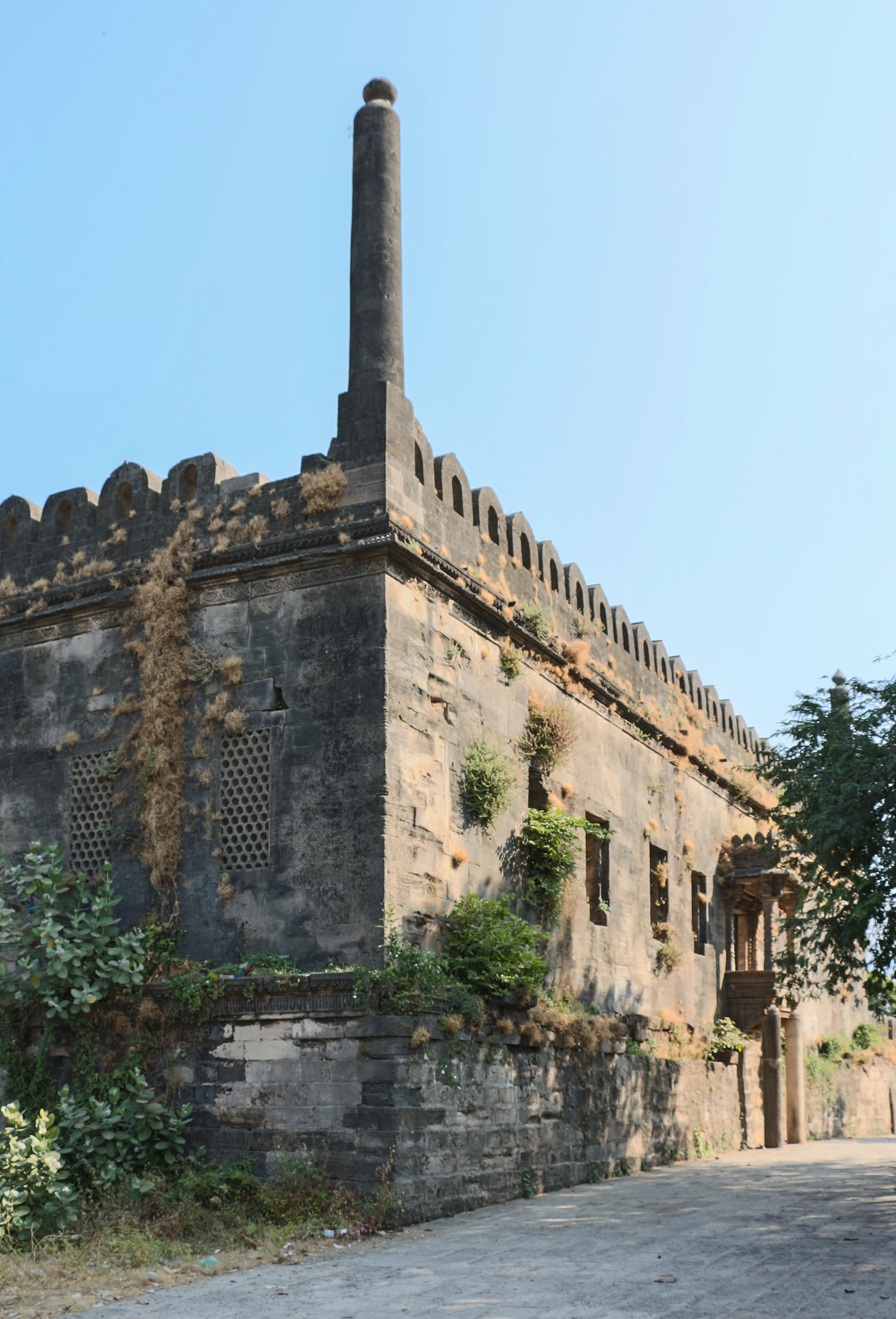 Jama Masjid in the Uperkot Fort, Junagadh, India